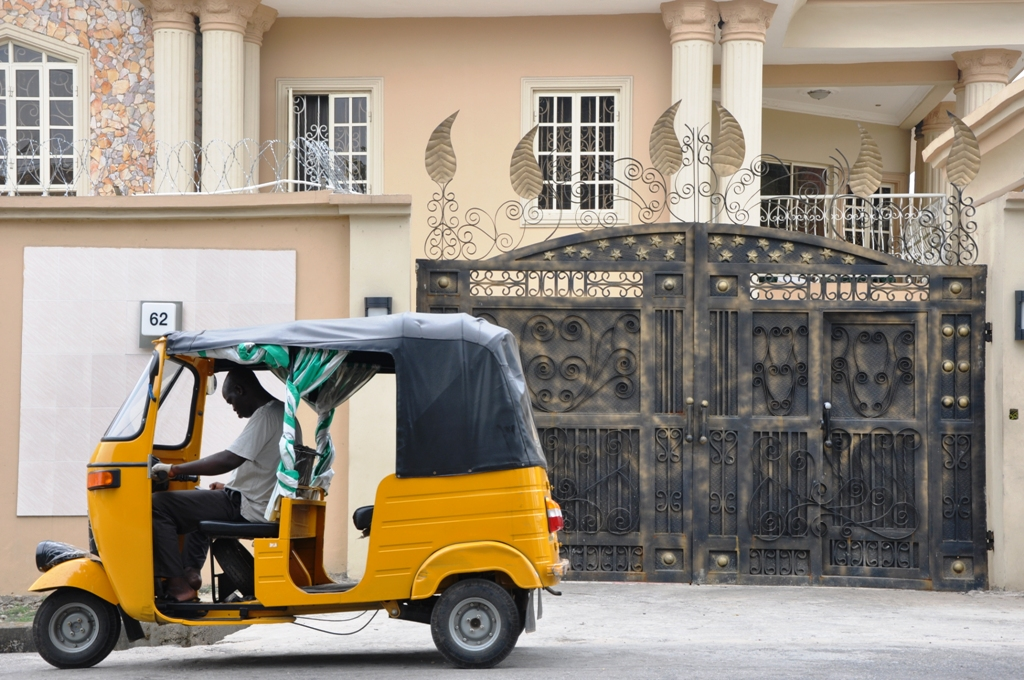 This is an image of "African people at work" from Nigeria